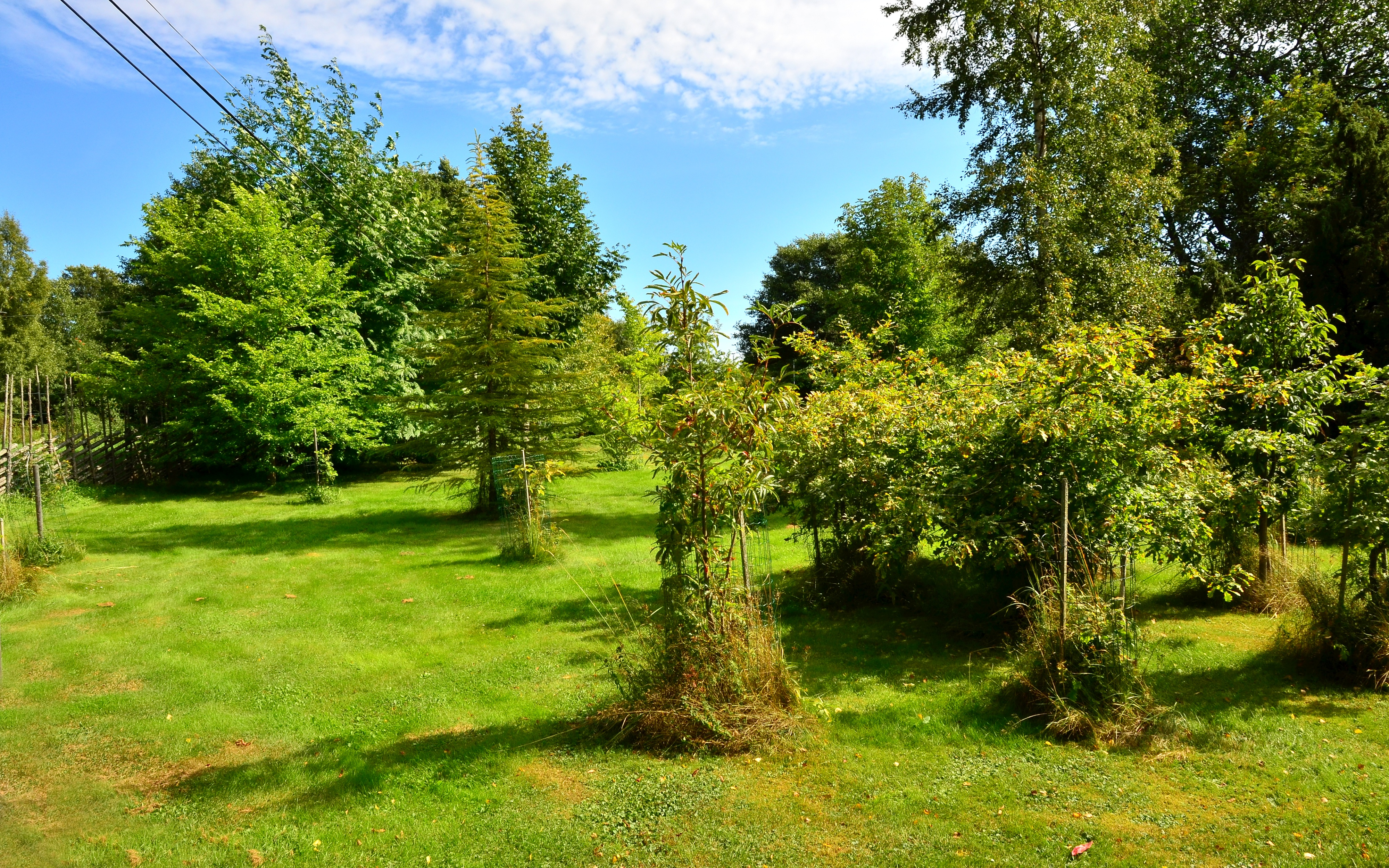 The Arboretum Lassas Hagar on Svartlöga, Stockholm archipelago, Sweden.